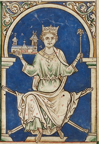 Henry III, King of England. (British Library, MS Royal 14 C VII f.9)